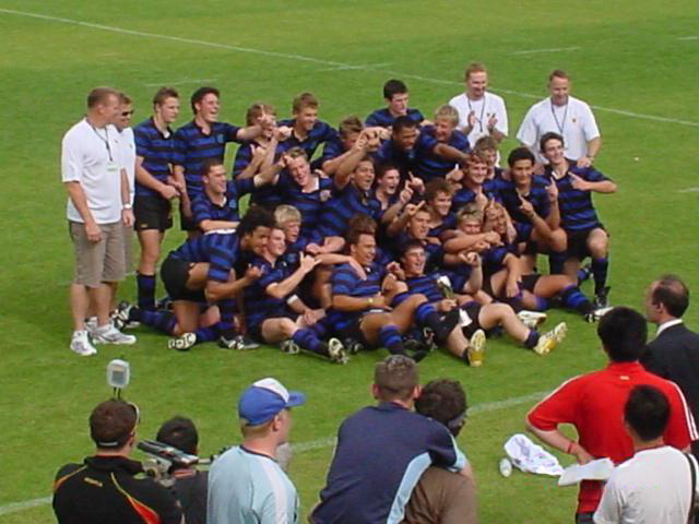 Christchurch Boys High School from New Zealand, winners of the Sanix World Rugby Youth Invitational tournament 2006 (and 2005)